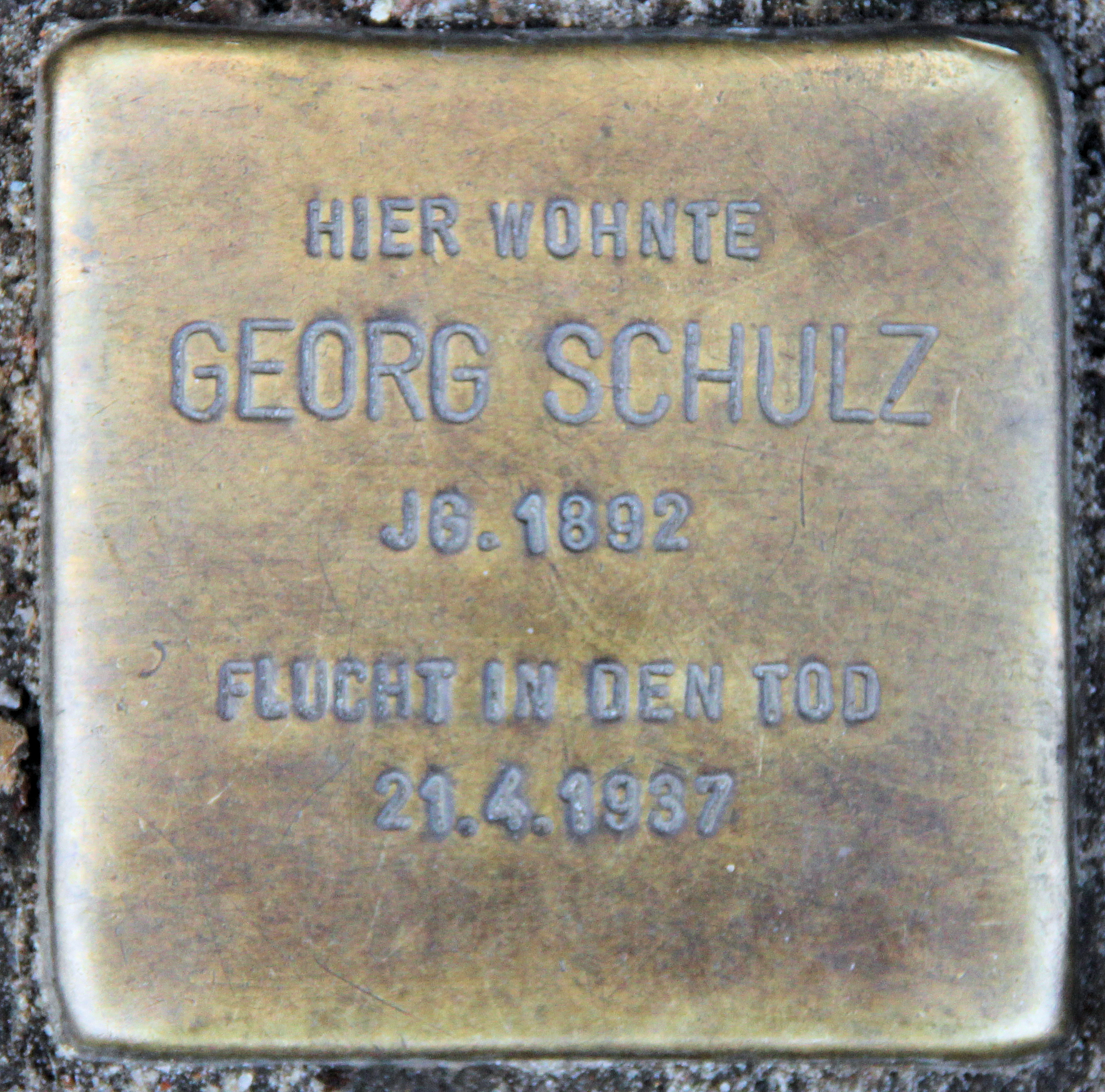 "Stolperstein" (stumbling block), Georg Schulz, Leibnizstraße 86, Berlin-Charlottenburg, Germany